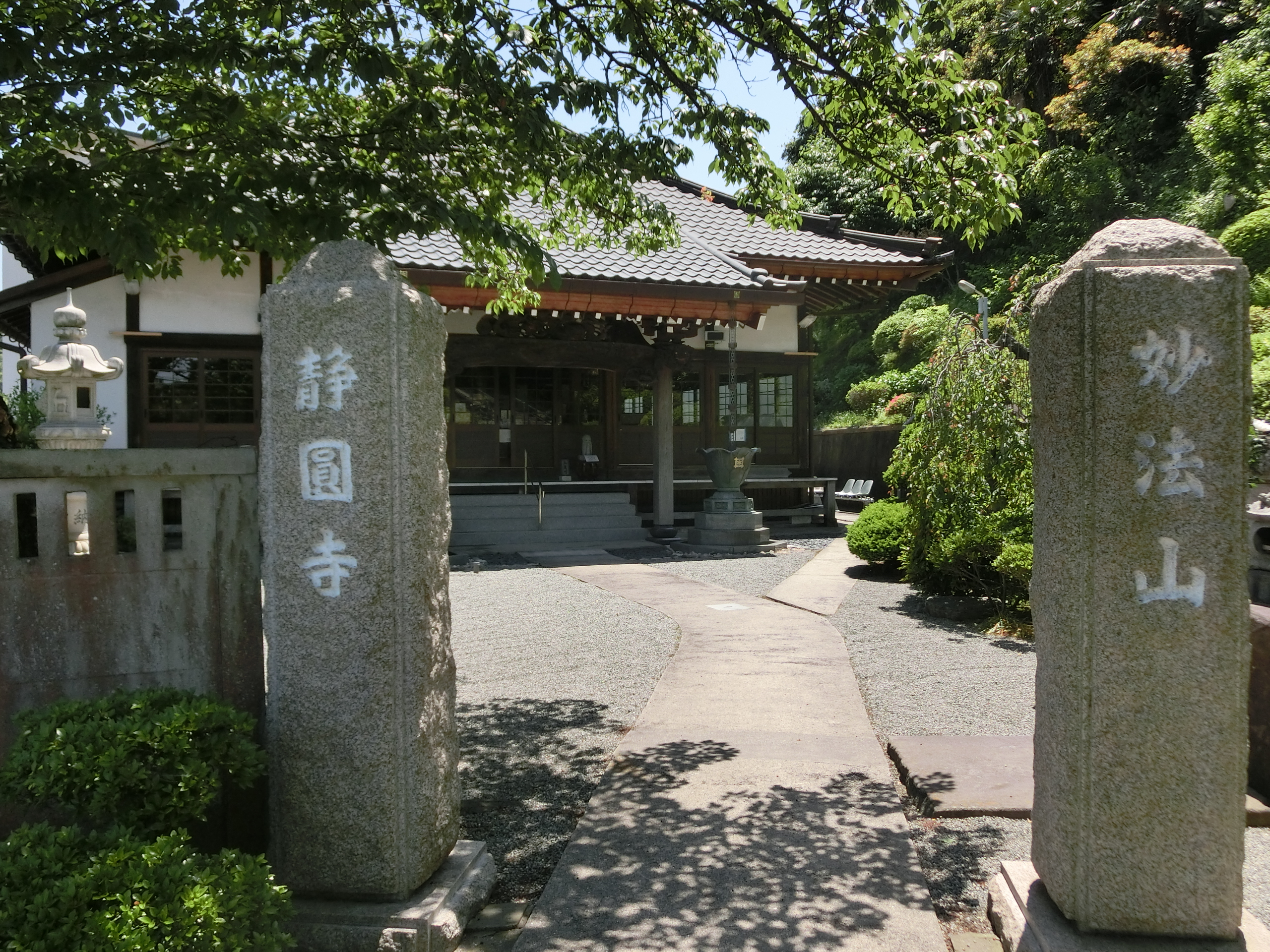 Joen-ji (Yokosuka)